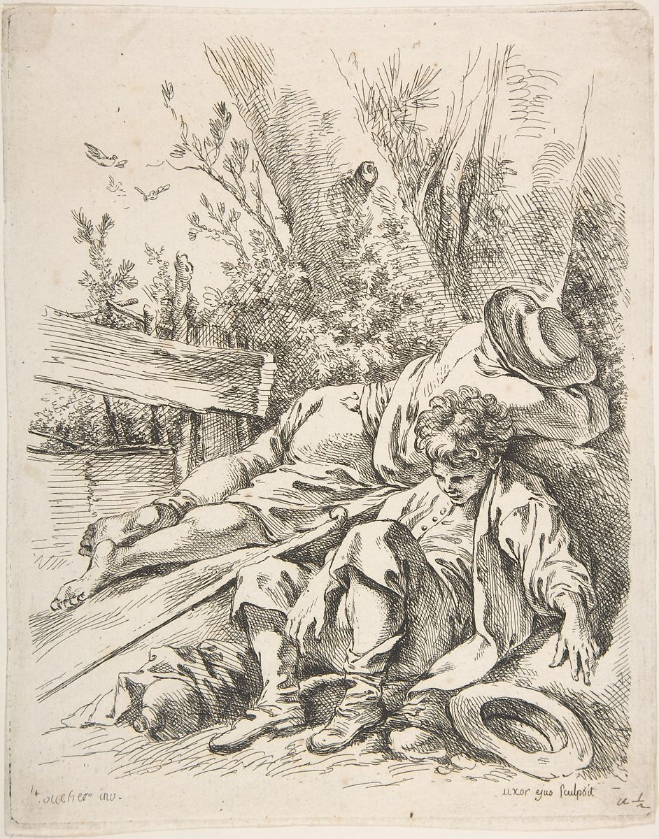 Marie-Jeanne Boucher. Two Boys Sleeping Besides a Tree. Etching After François Boucher